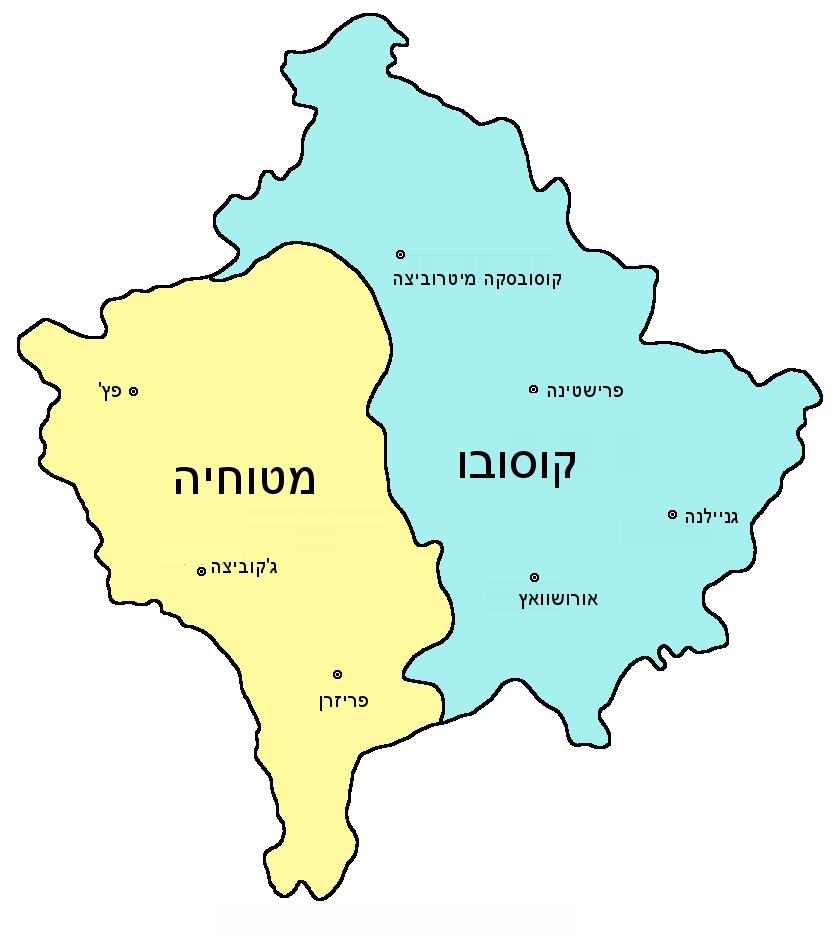 Map of geographical regions of Kosovo - Kosovo (proper) and Metohija (in Hebrew language).